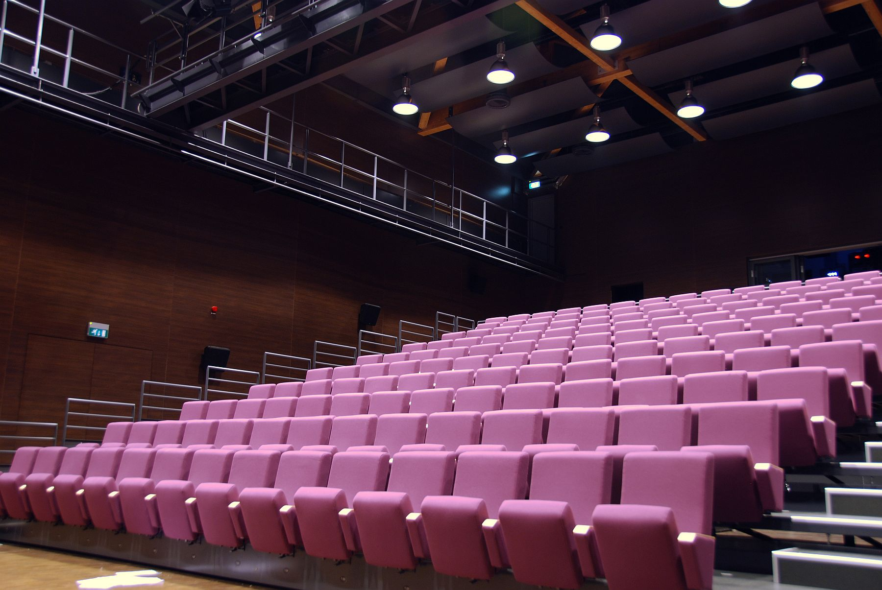 The regional culture centre "Cube 521" in Marnach, Luxembourg.